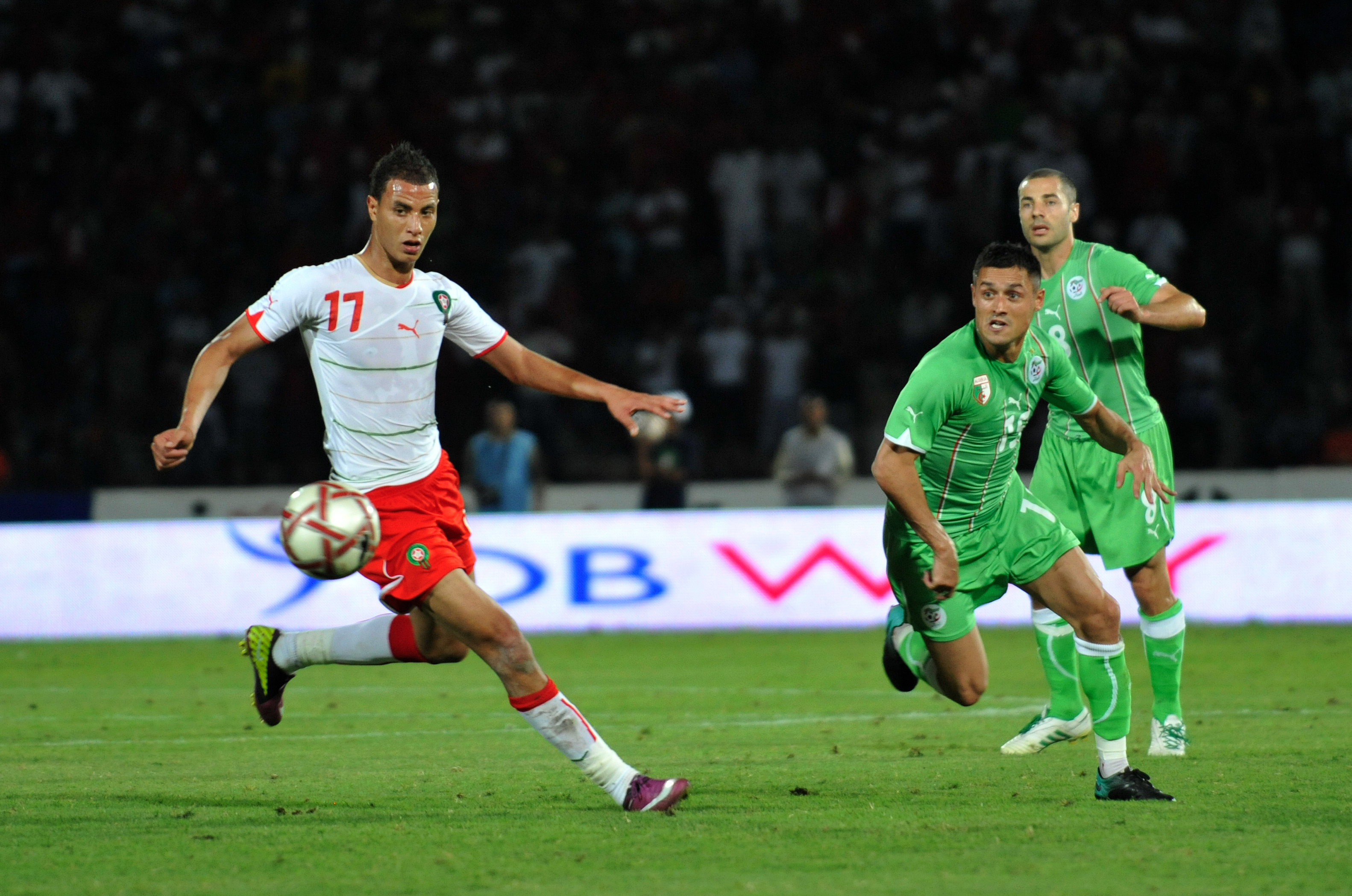 Moroccan football player Marouane Chamakh and Alerian Karim Ziani during match between their national sides. Morocco won 4:0